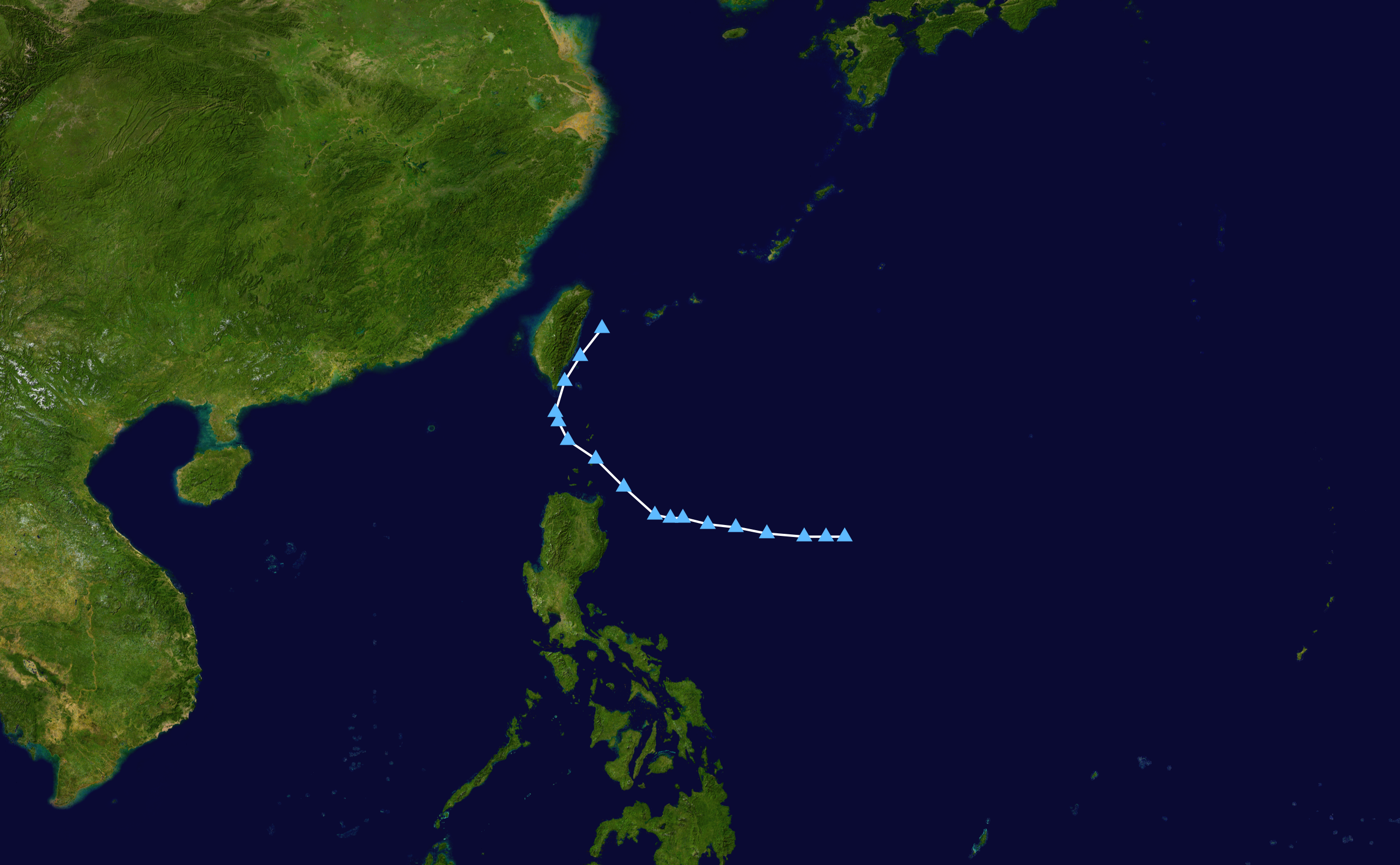 Track map of Tropical Depression Carina of the 2020 Pacific typhoon season. The points show the location of the storm at 6-hour intervals. The colour represents the storm's maximum sustained wind speeds as classified in the Saffir–Simpson scale (see below), and the shape of the data points represent the nature of the storm, according to the legend below. Saffir–Simpson scale Tropical depression≤38 mph≤62 km/h Category 3111–129 mph178–208 km/h Tropical storm39–73 mph63–118 km/h Category 4130–156 mph209–251 km/h Category 174–95 mph119–153 km/h Category 5≥157 mph≥252 km/h Category 296–110 mph154–177 km/h Unknown Storm type Tropical cyclone Subtropical cyclone Extratropical cyclone / Remnant low / Tropical disturbance / Monsoon depression